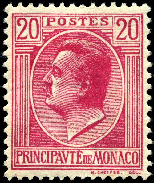 Monaco 20c rose stamp of 1924